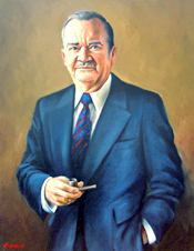 Clement J. Zablocki, US Representative from Wisconsin